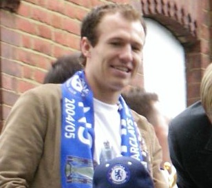 Arjen Robben celebrates winning the 2004-05 Premiership.